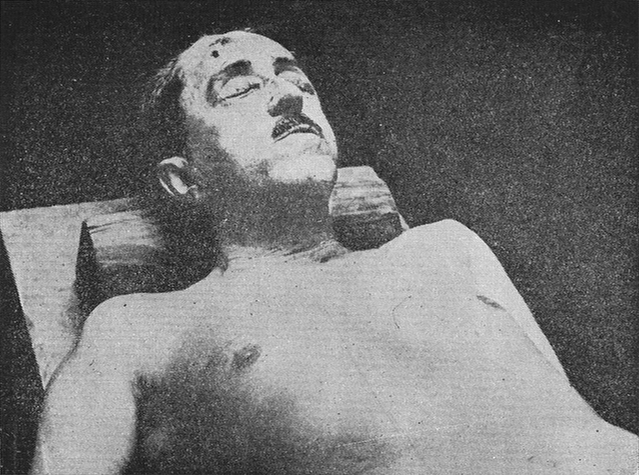 The dead body of former minister Virgil Madgearu at the Medico-Legal Institute in Bucharest, following assasination by a fascist death squad on the 27th of november 1940Română: Corpul ministrului Virgil Madgearu la Institutul Medico-Legal Prof. Dr. Mina Minovici din București, în urma asasinării sale la 27 noiembrie 1940 de către legionari.